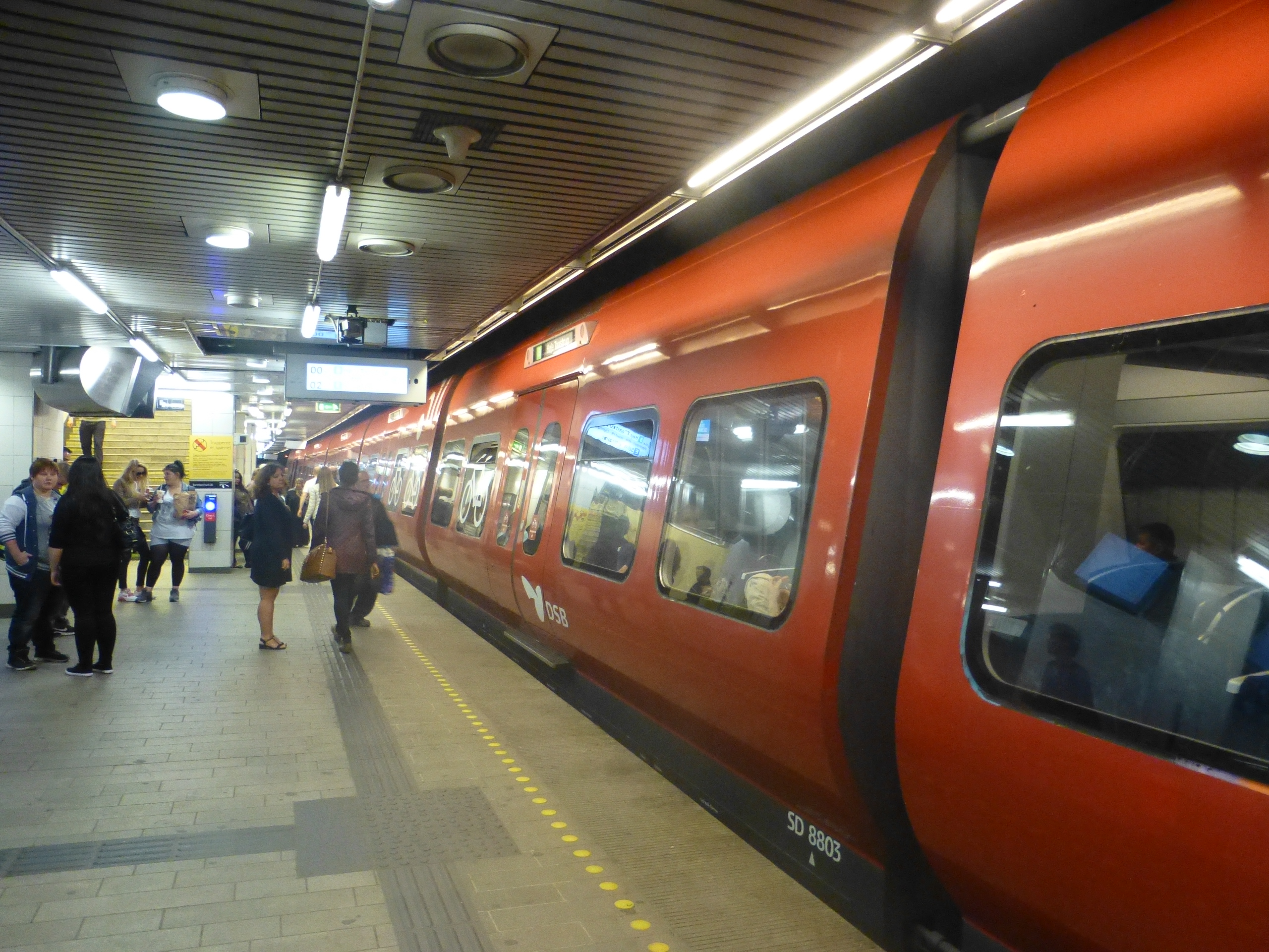 Nørreport Station in Indre By in Copenhagen. S-train on line B for Høje Taastrup.